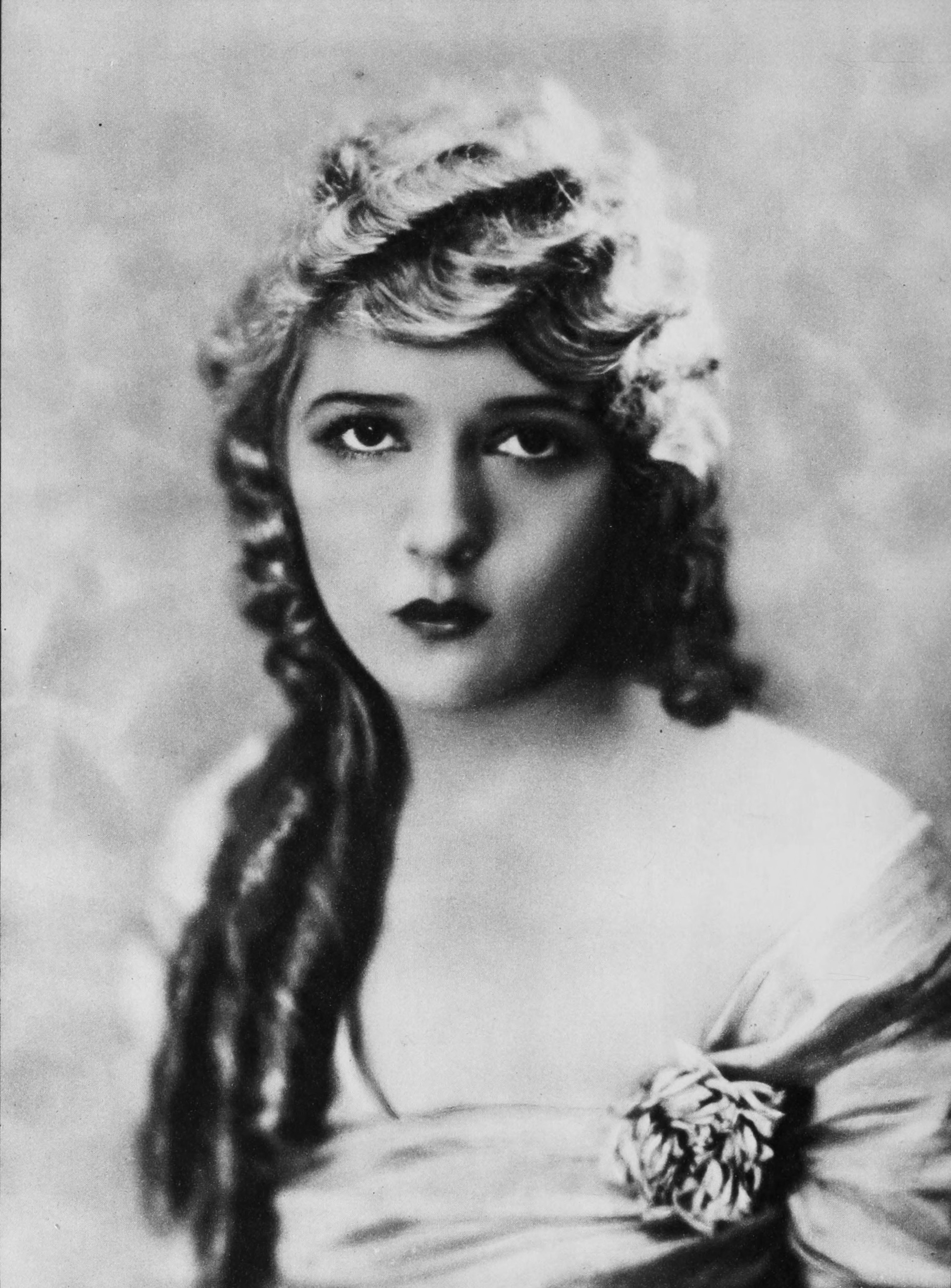 American actress Mary Pickford on page 38 of the October 1921 Photoplay.